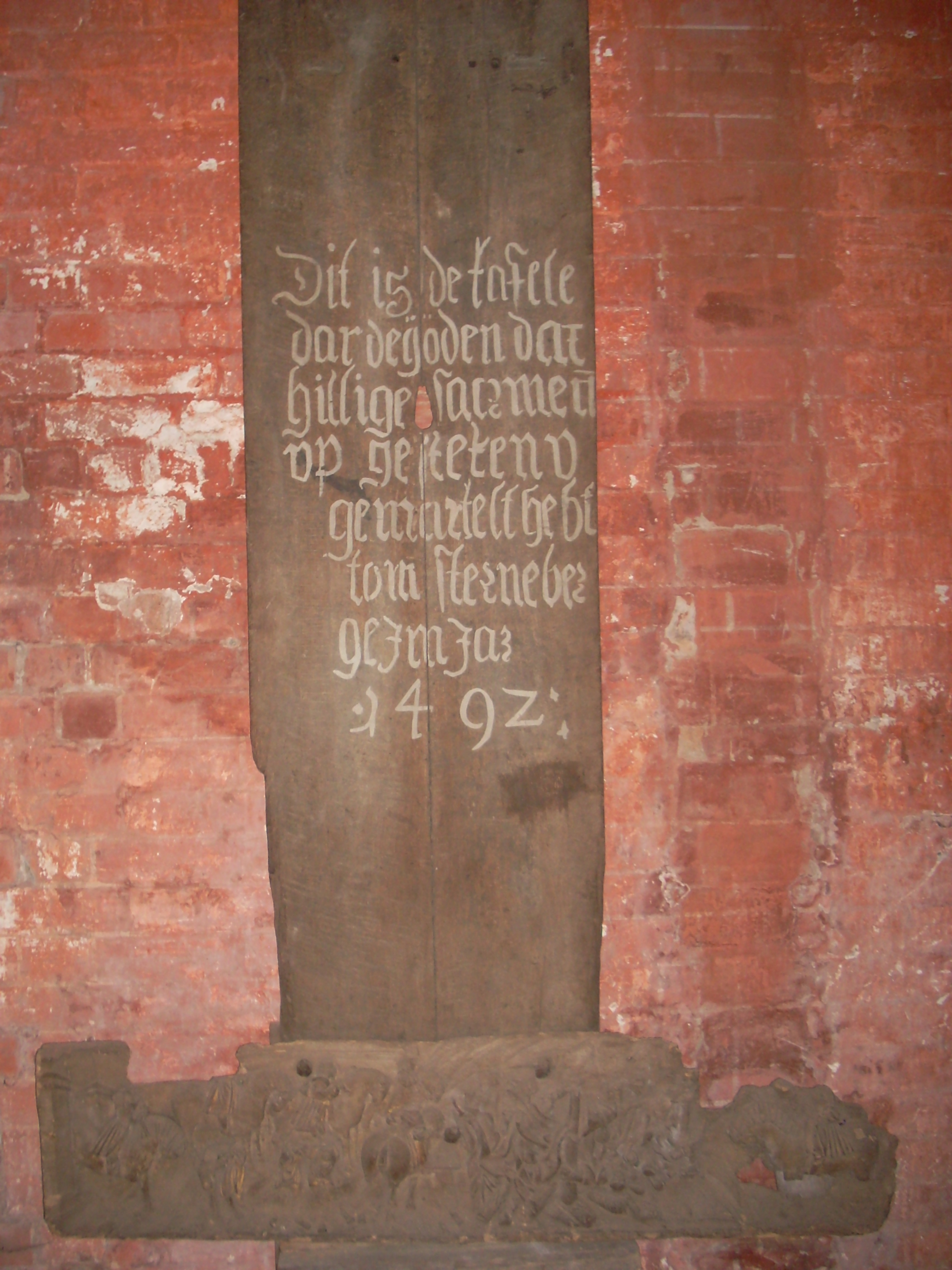 Memorial in the church Sternberg in Mecklenburg